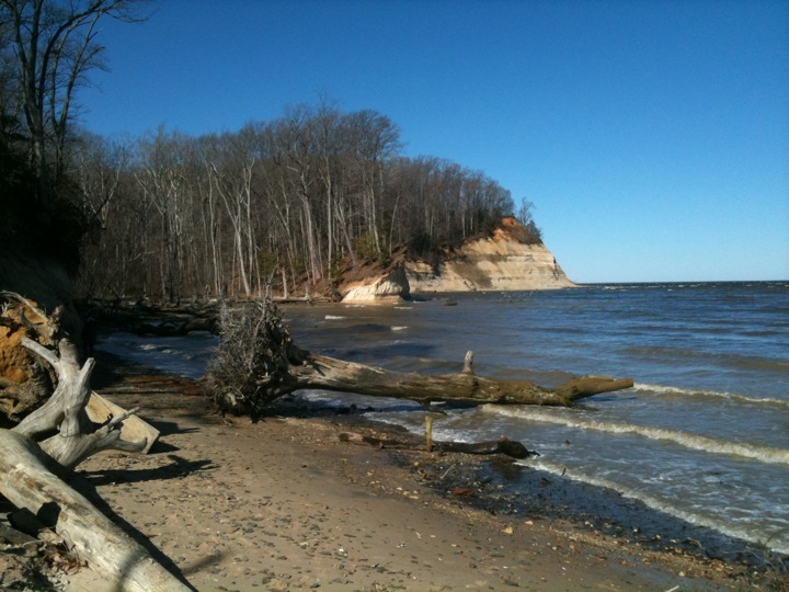 A view of the Potomac River shoreline in Westmoreland State Park, Virginia